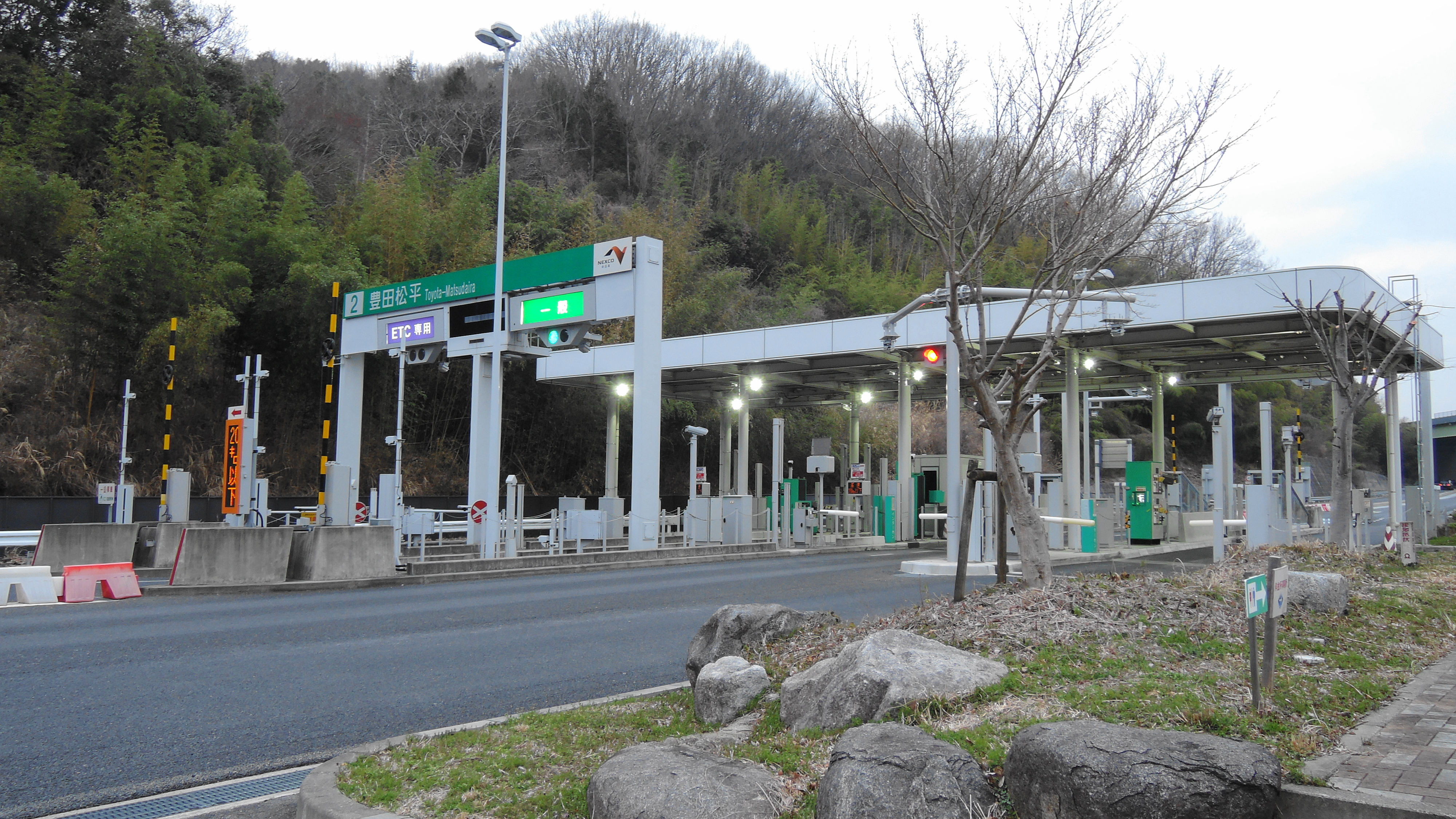 Toyota Matsudaira Inter Change, Aichi prefecture,Japan